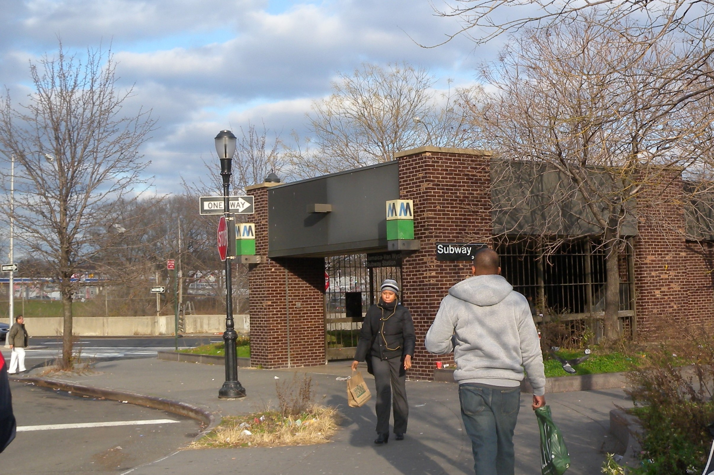 Looking east across end of Metropolitan Avenue, at headhouse of IND station on a partly sunny afternoon.